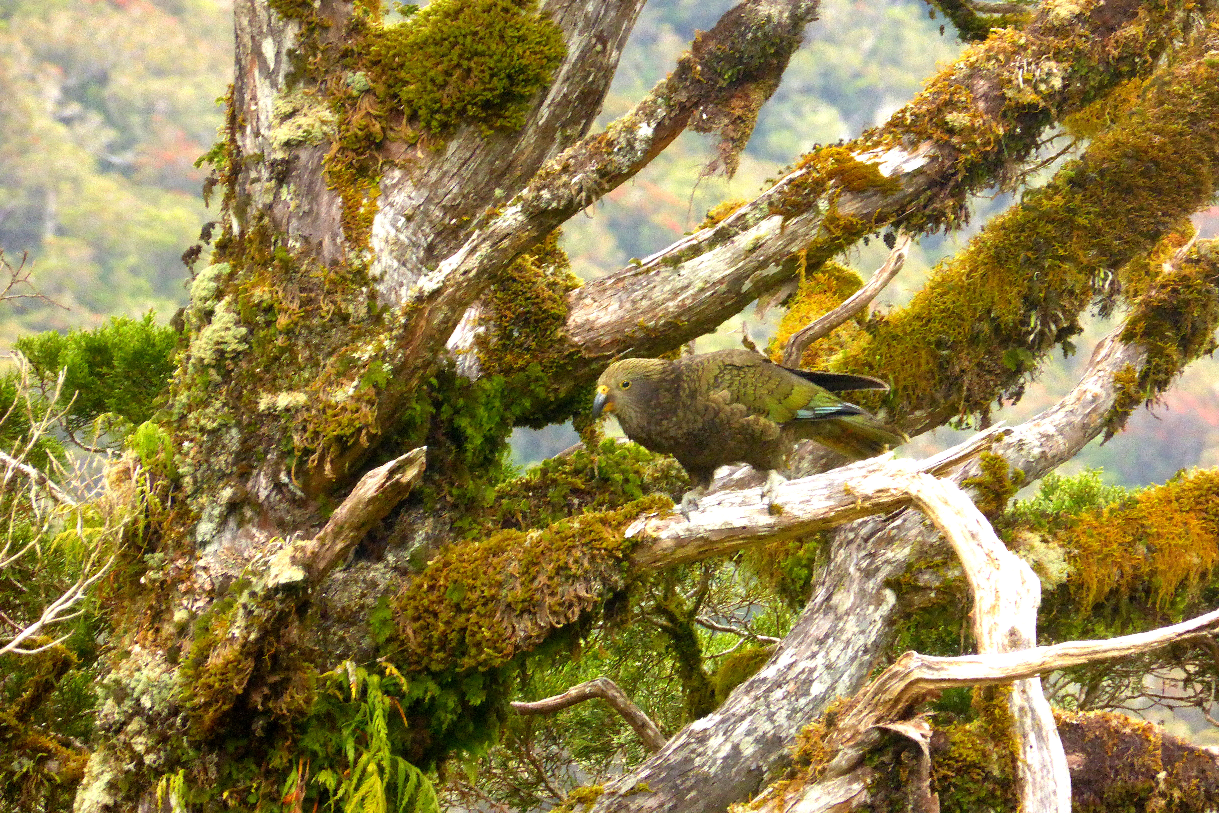 The Copeland track, Kea near the Welcome Flat Hut.